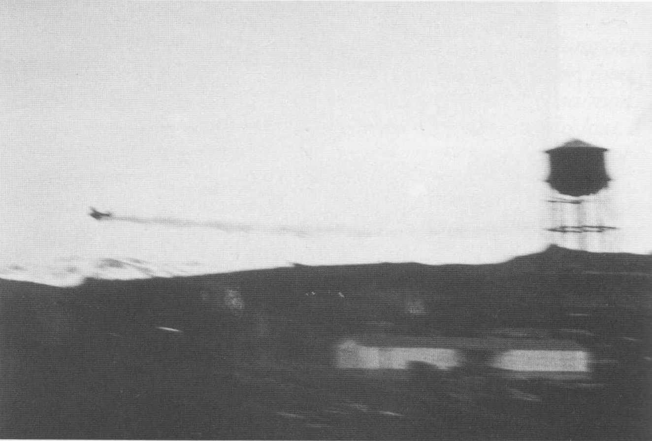 An Imperial Japanese Navy Zero aircraft piloted by Tadayoshi Koga is damaged by anti-aircraft fire over Dutch Harbor, Alaska on 4 June 1942. Koga later crashed the Zero on nearby Akutan island and was killed in the crash. The Zero was recovered by US forces and used for intelligence purposes.